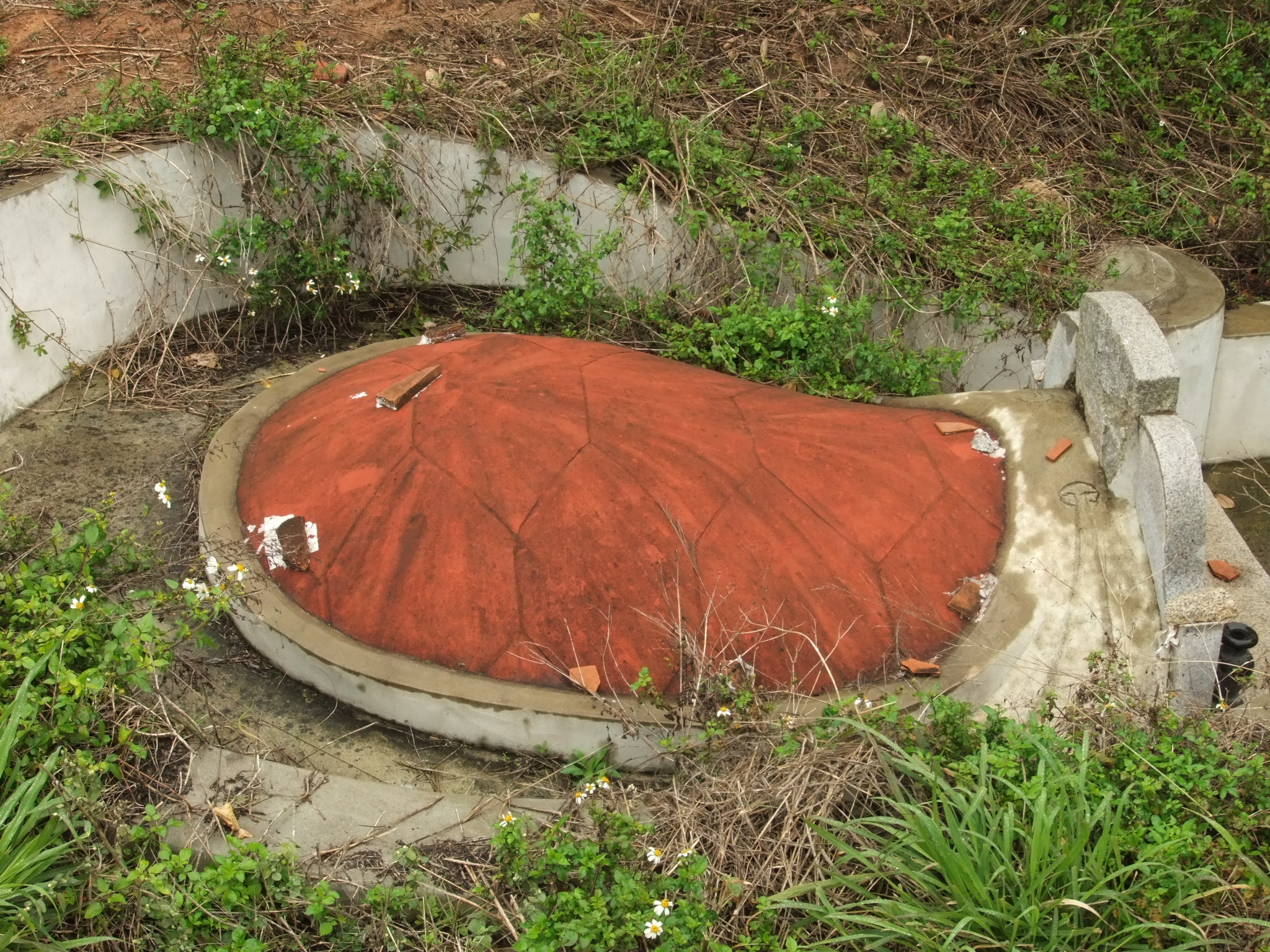 A turtle-back tomb in Kinmen Island. The photo is taken somewhere in a nature park SE of Jinshan Road and SW of the airport, some 3 km SE of Jincheng Town.